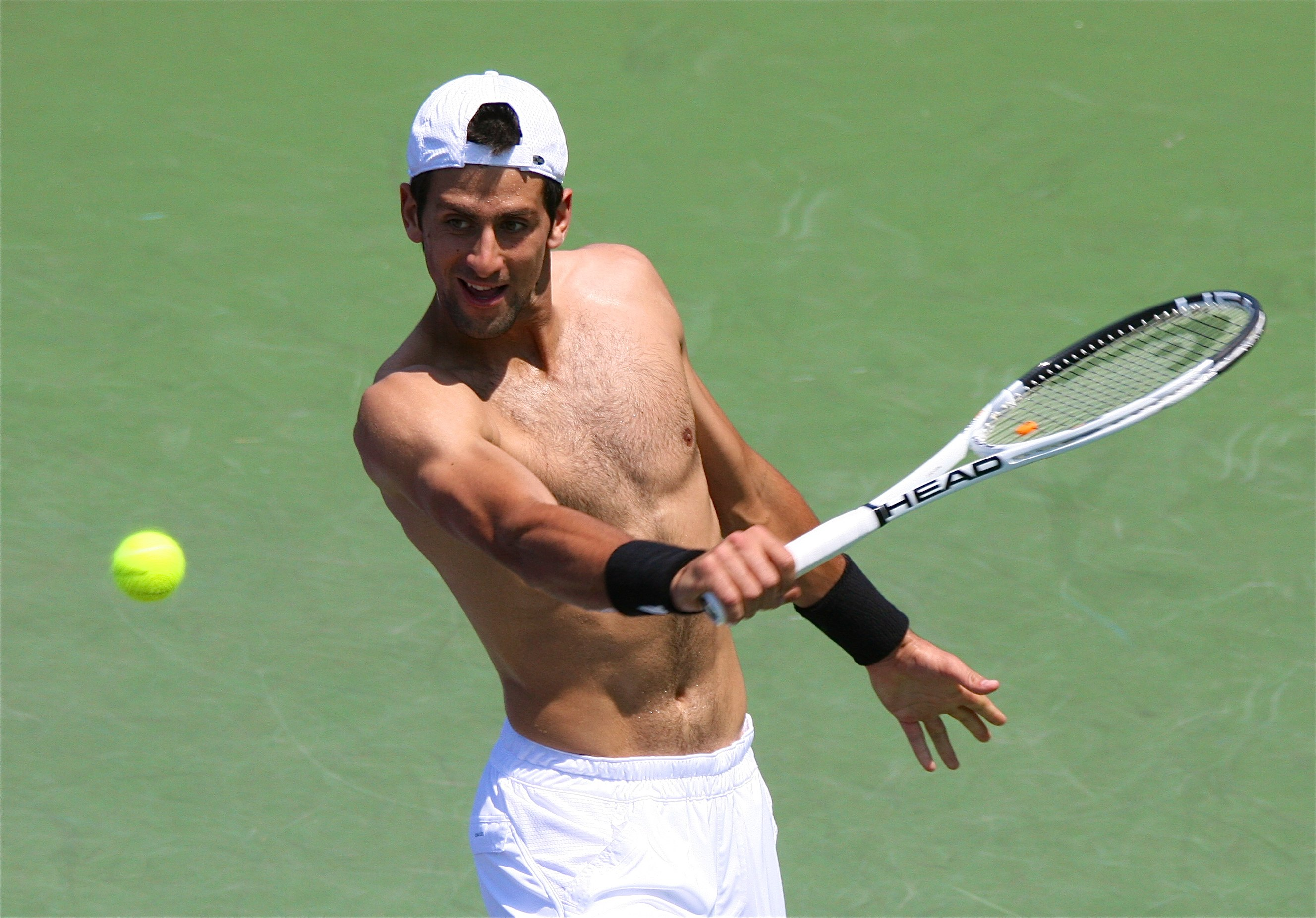 Novak Đoković at 2009 Sony Ericsson Open, Miami, Florida, United States